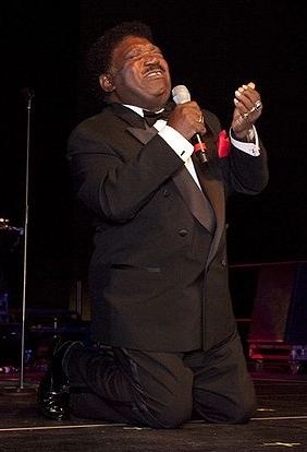 Percy Sledge at the Alabama Music Hall of Fame